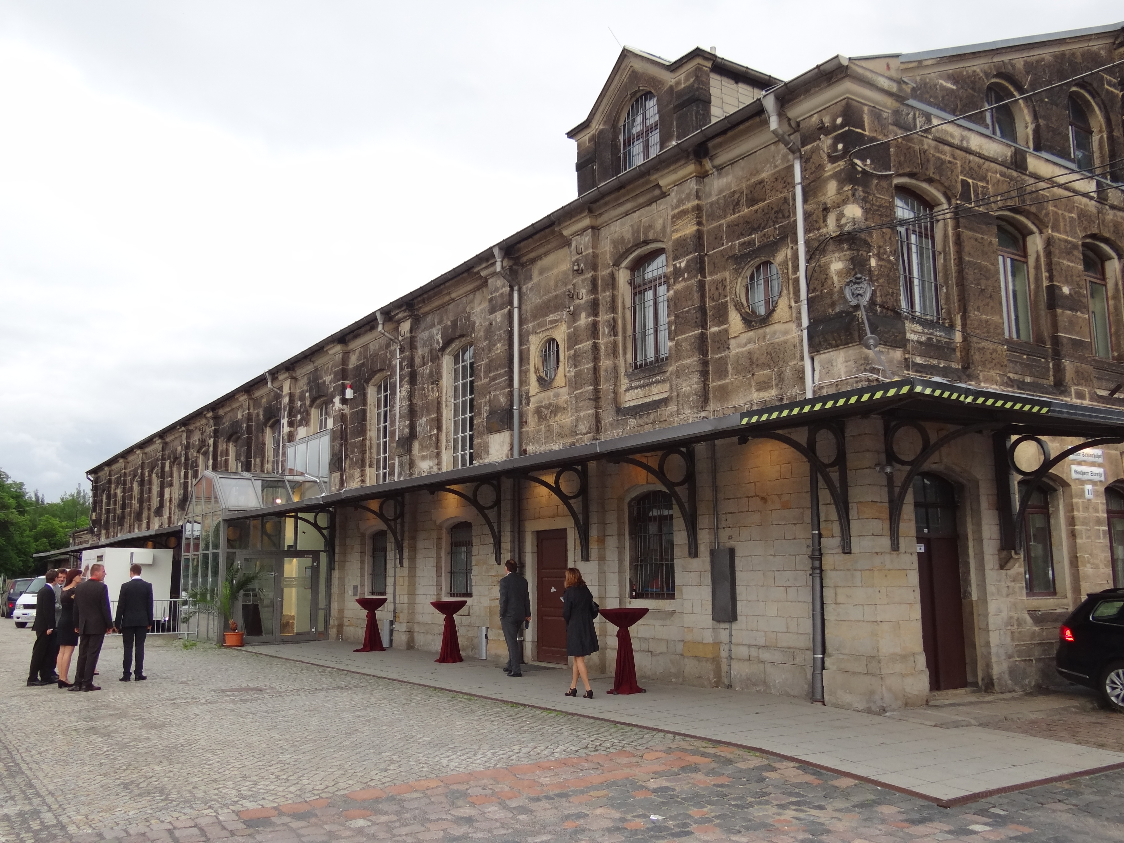 Alter Schlachthof (Old Slaughterhouse) - From Vonnegut's Slaughterhouse-Five - Dresden - Germany - 01